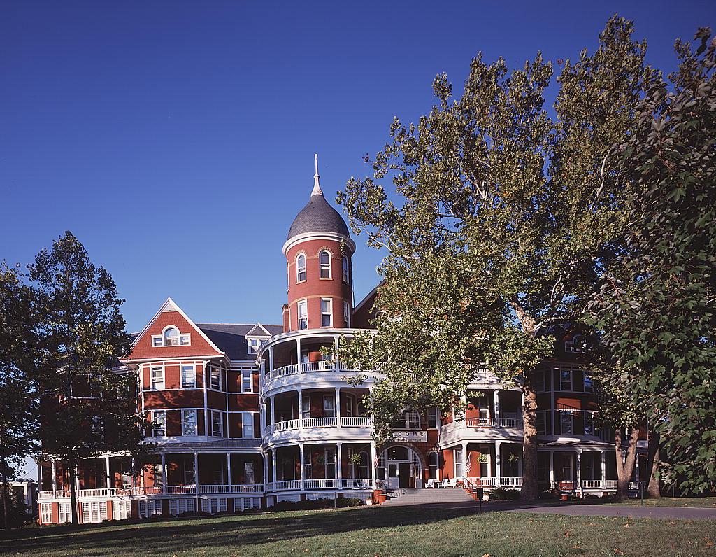 Main Hall at Southern Virginia University. Located in Buena Vista, Virginia. Founded in 1867, but reorganized in 1996 to become an institution serving the Latter-day Saint community. The university owns approximately 155 acres, most of which is undeveloped property for future expansion.